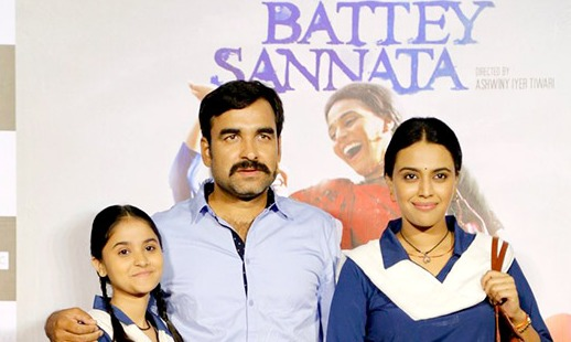 Ria Shukla, Pankaj Tripathi and Swara Bhaskar Trailer launch of Nil Battey Sannata